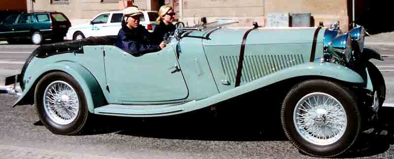 Lagonda M45 Rapide Sports Tourer (T9 body)